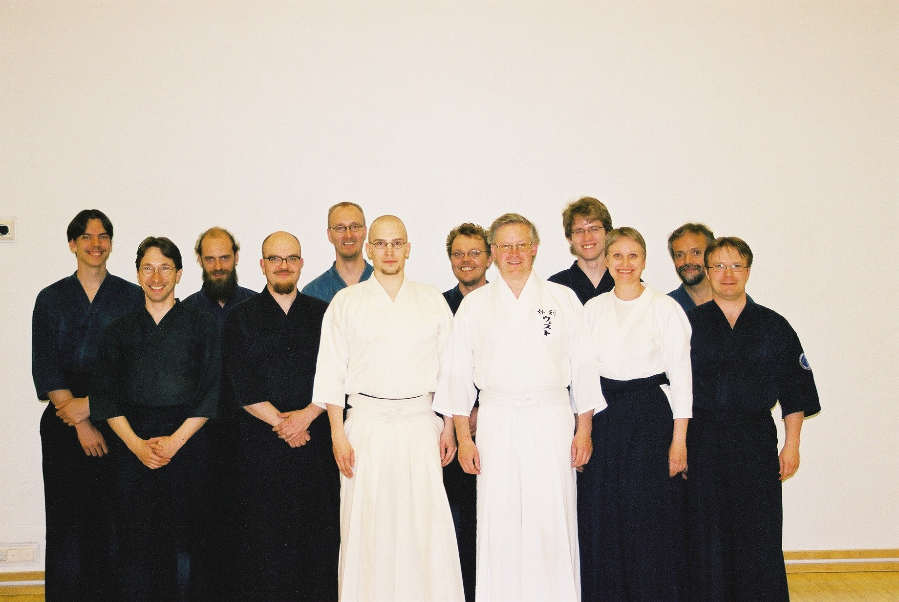 Finnish jodo camp 2003